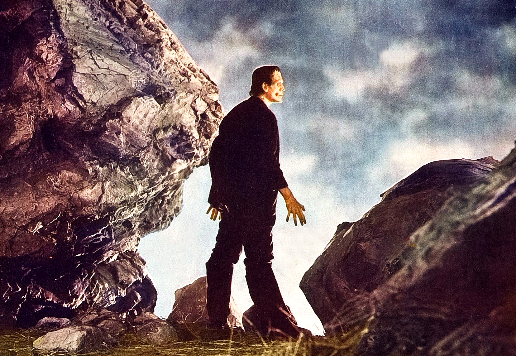 Cropped and edited lobby card for the 1931 Universal horror movieFrankenstein, featuring Boris Karloff. Image is assumed to be in the public domain as no copyright is in evidence.